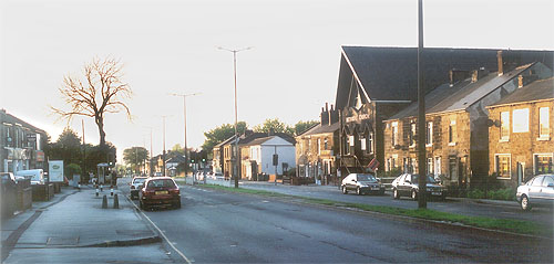 Handsworth (oeste) foto: Wikityke